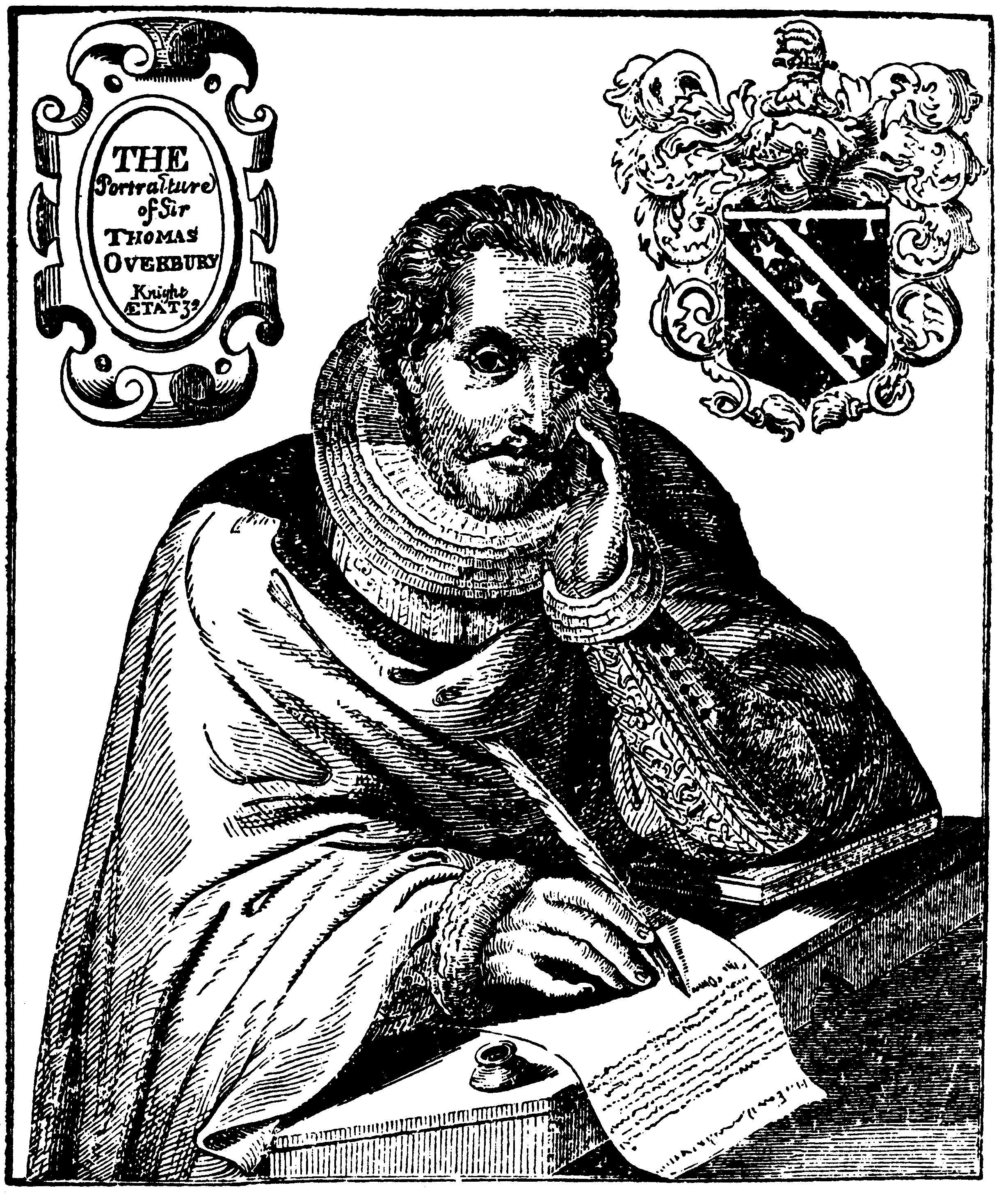 Sir Thomas Overbury